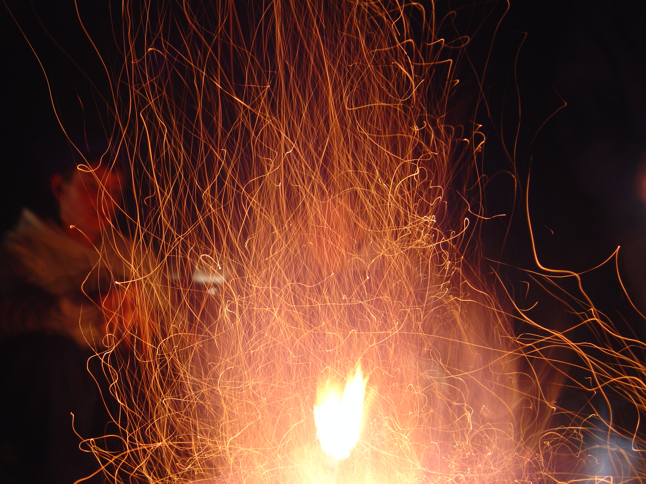 Scouts sit around a campfire.